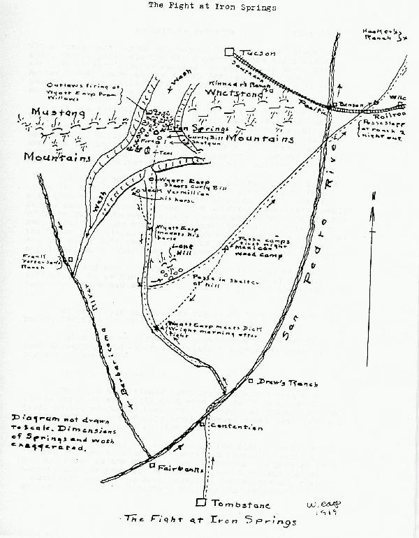 During 1918 and 1919, Wyatt Earp told his story about the Gunfight at the O.K. Corral and its aftermath to John Flood. With Earp's input, Flood drew a map of the location of Iron Springs, where Earp killed Curly Bill Brocius. Earp was also interviewed by Forrestine Hooker. The map was included in her story.